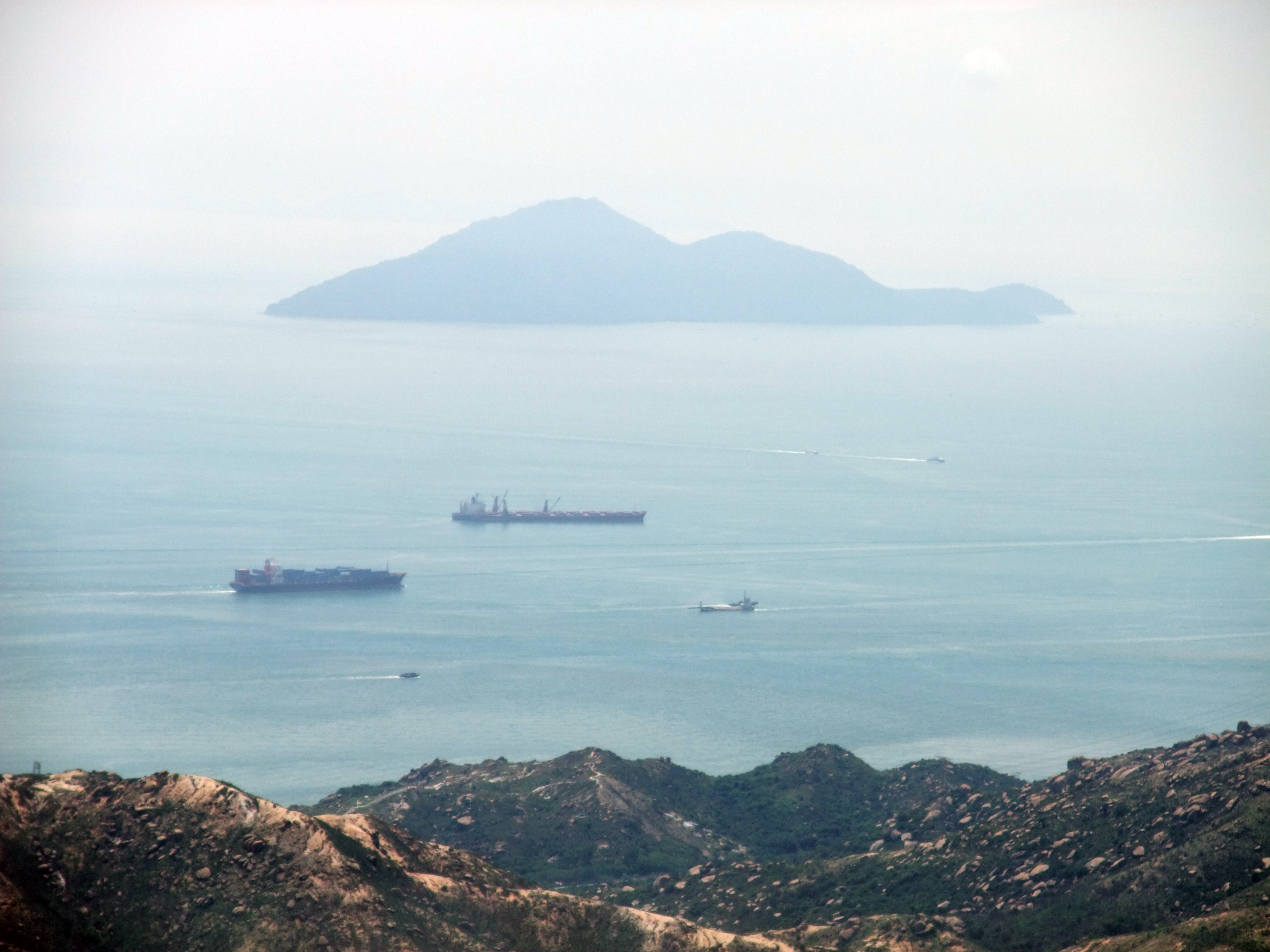 Photo of Nei Lingding Island (seen from Castle Peak, Hong Kong)